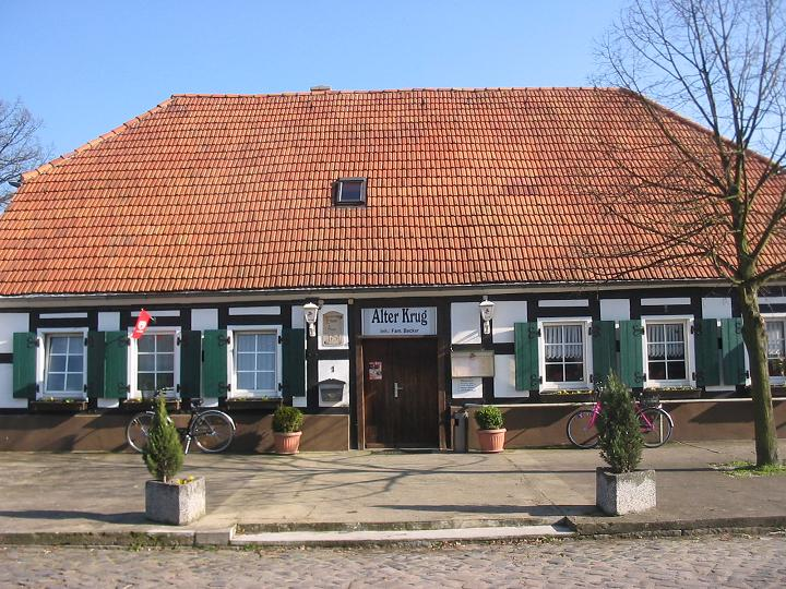 Listed „Alter Krug“ (german for: old inn), the oldest preserved bulding in Ludwigsfelde, built in 1753. In all times to this day it was an inn. Ludwigsfelde is a town in the district Teltow-Fläming, state Brandenburg, Germany.)